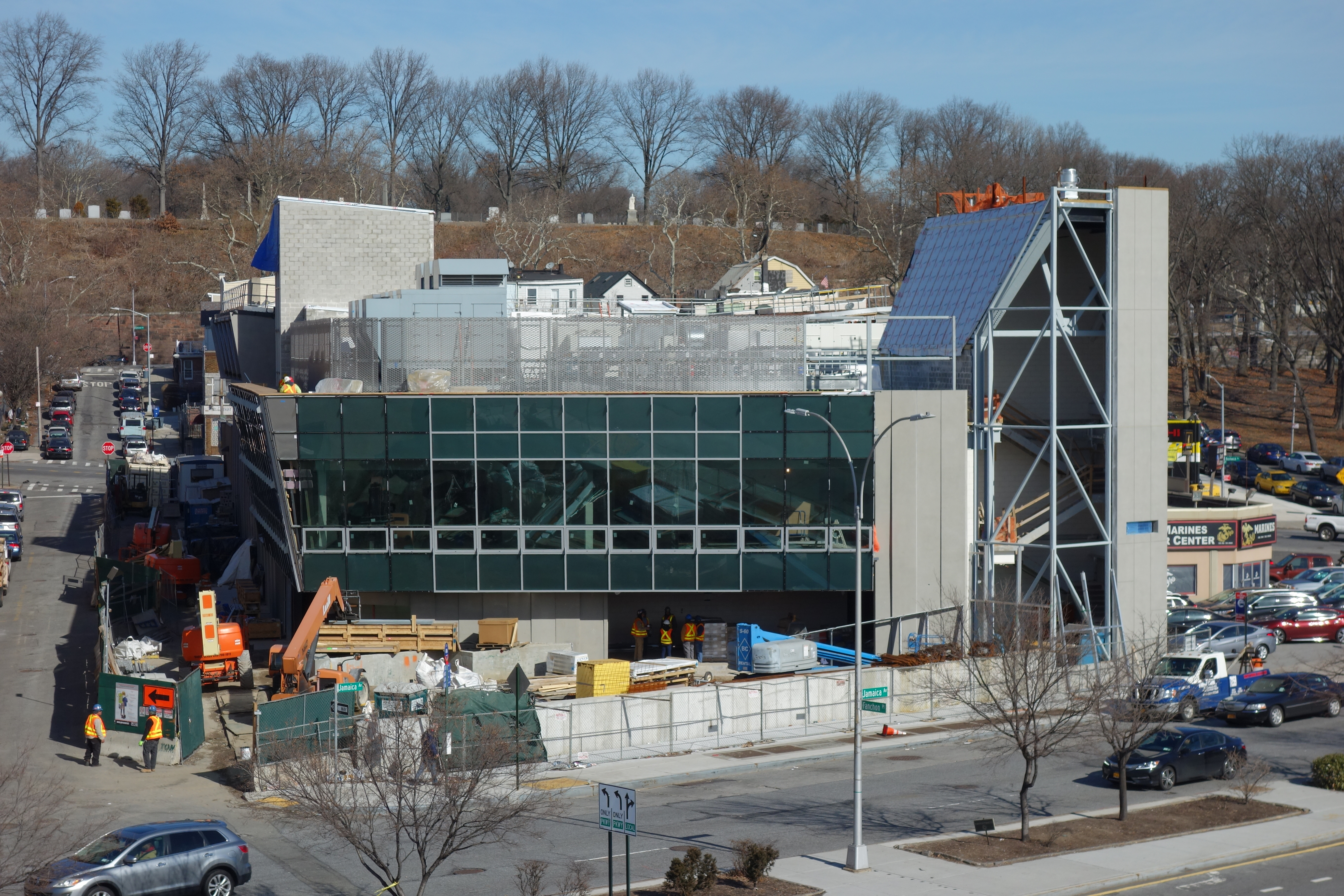 Looking at the new East New York Bus Command Center under construction at Jamaica Avenue and Fanchon Place in East New York / Broadway Junction, Brooklyn. Looking from the Alabama Avenue BMT Jamaica Line station at Georgia Avenue.